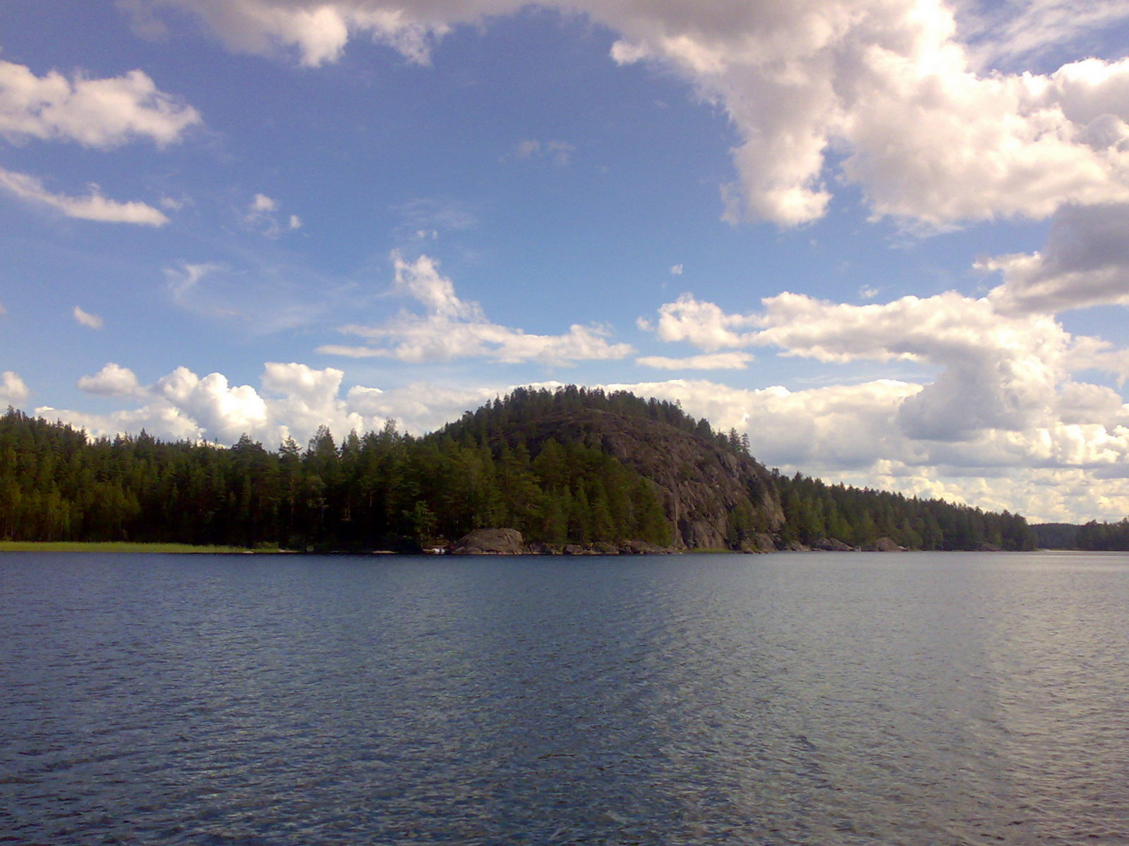 Approaching Linnavuori